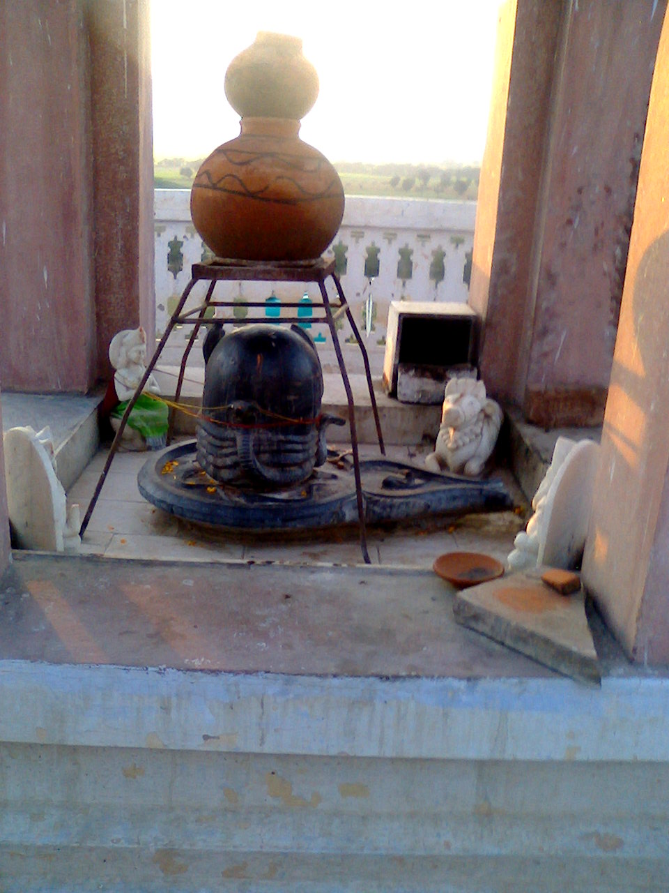 shiv ji ka mandir